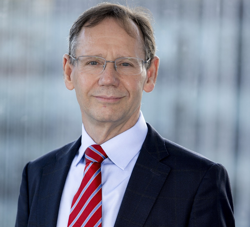 Australian academic, author and commentator on health systems and healthcare services